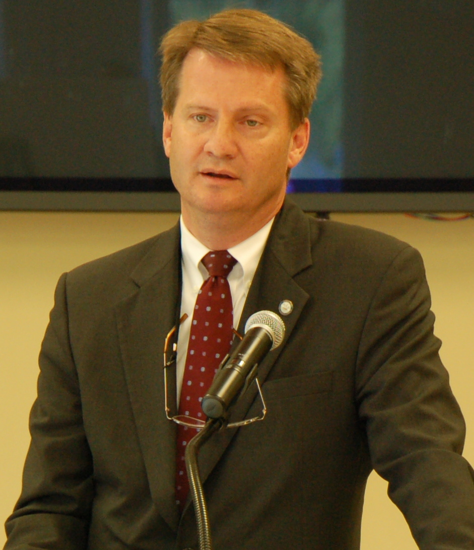 Tim Burchett